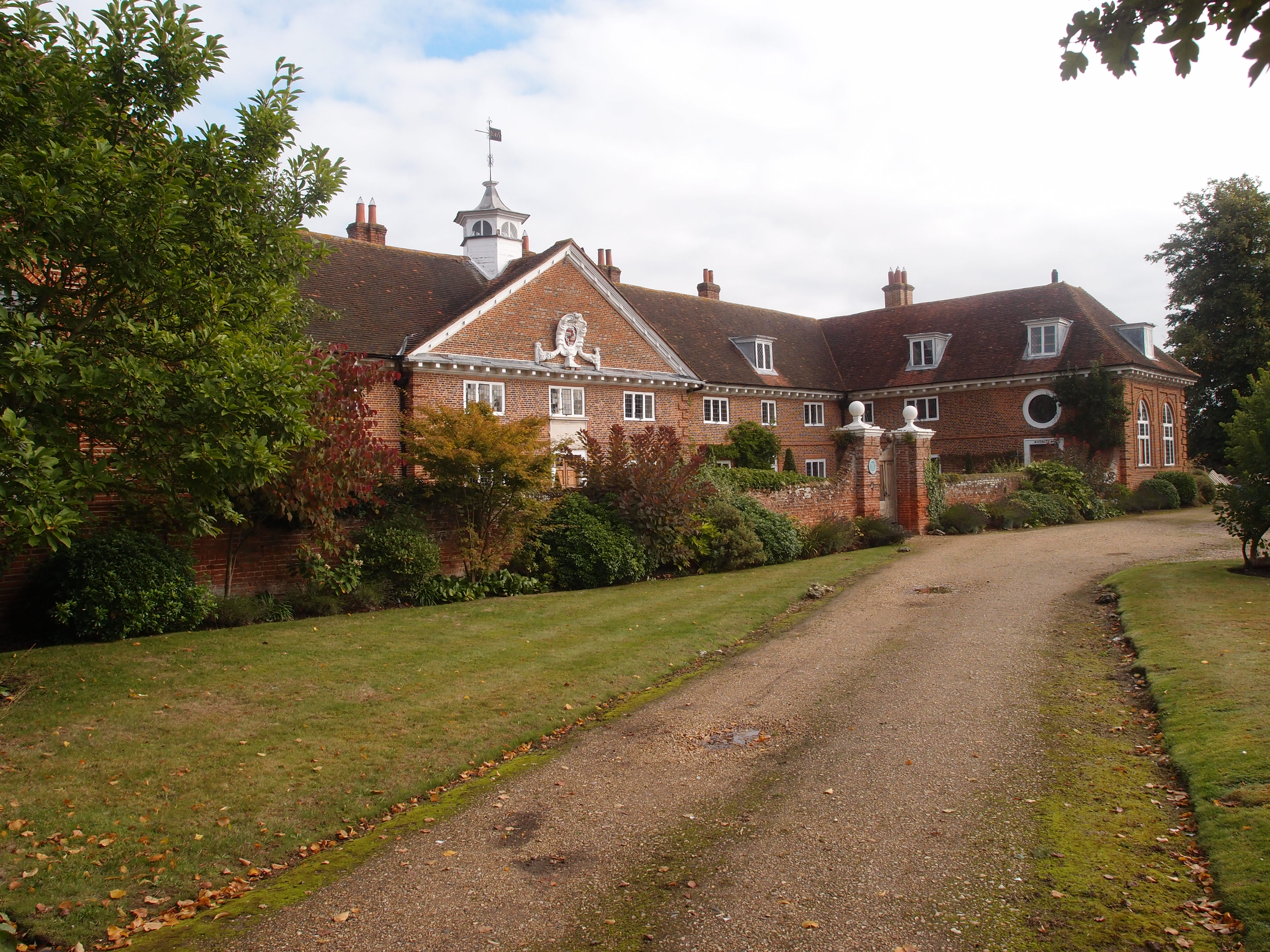 Lucas Hospital Chapel, Wokingham